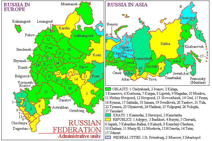 A map of administrative units of the Russian Federation.